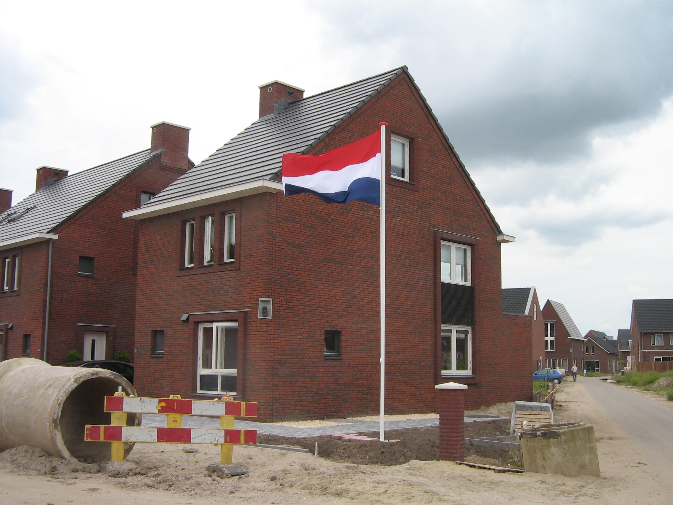 New house construction in "Westeraam" to the west of Aam in Overbetuwe.